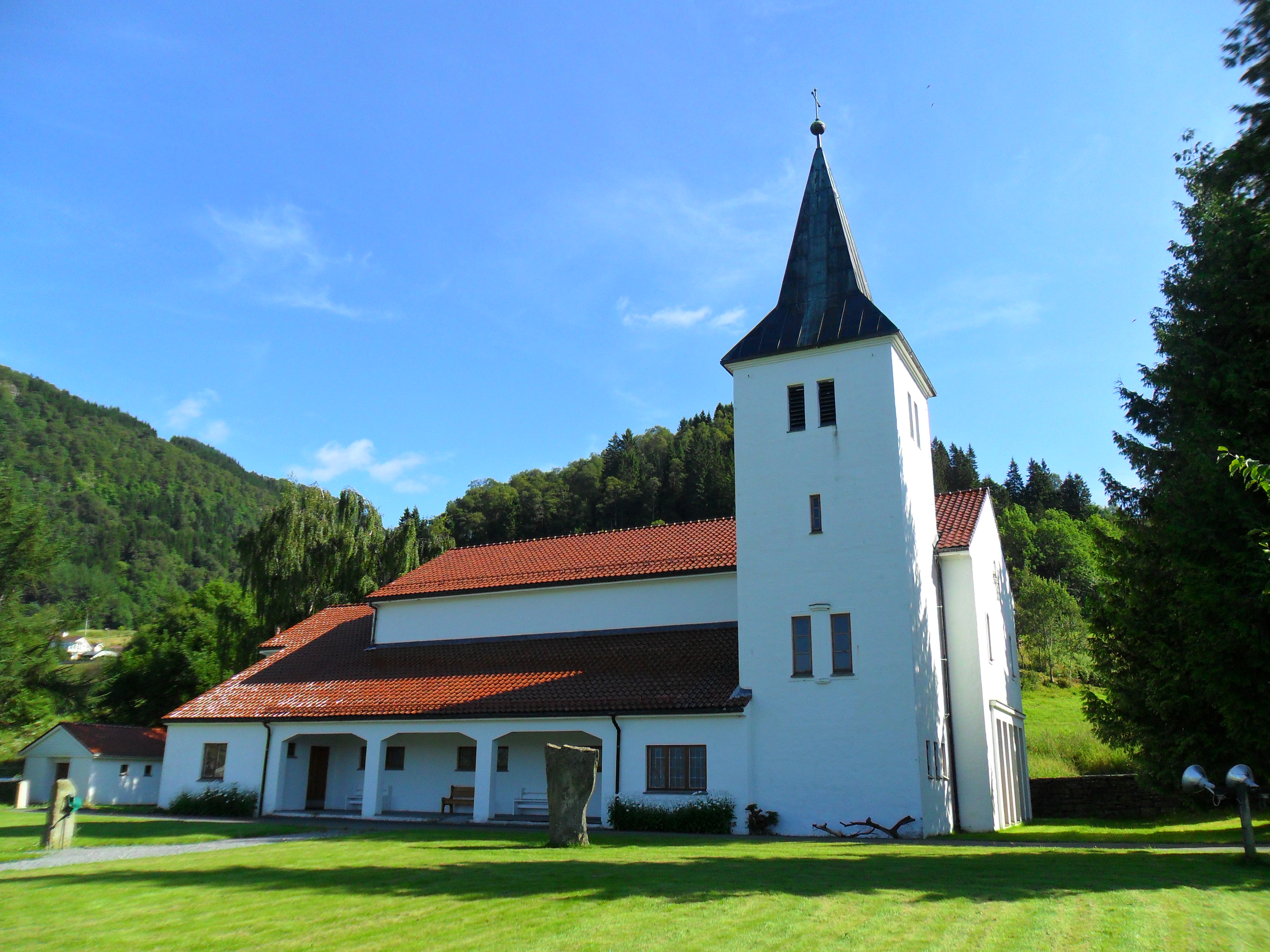 Fusa church in Fusa county, Hordaland, Norway